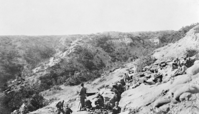 Gallipoli Peninsula, Turkey. July 1915. Russell's Top, Pope's Hill and Quinn's Post. Quinn's Post, like the posts next to it (Courtney's and Steele's) was protected by a slight prominence on its left. The Anzac troops in retiring from Quinn's Post were sniped from Russell's Top, in the rear.